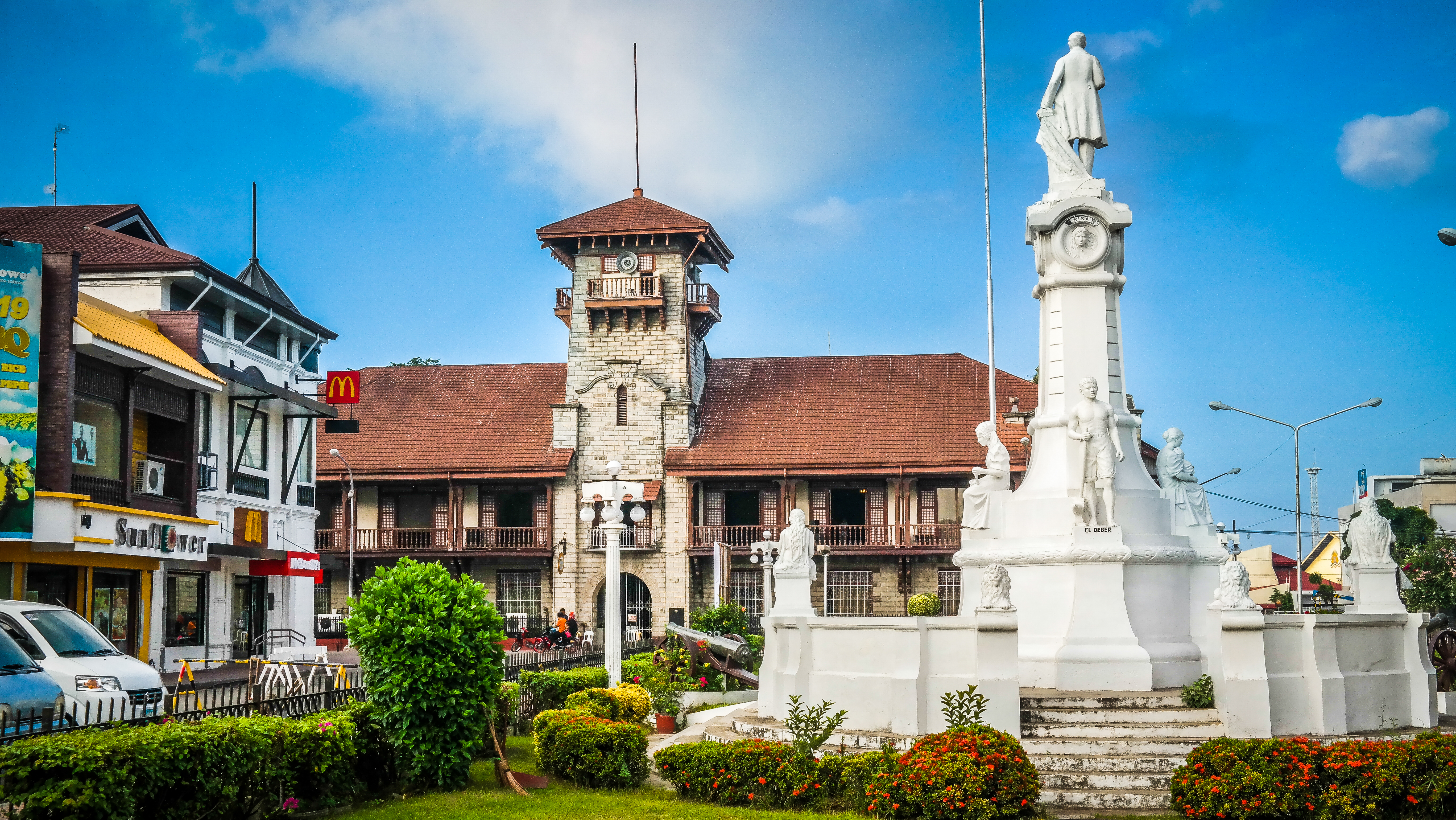 ZAMBOANGA CITY Asia's Latin City City Hall and Plaza Rizal (Ayuntamiento y Plaza Rizal)